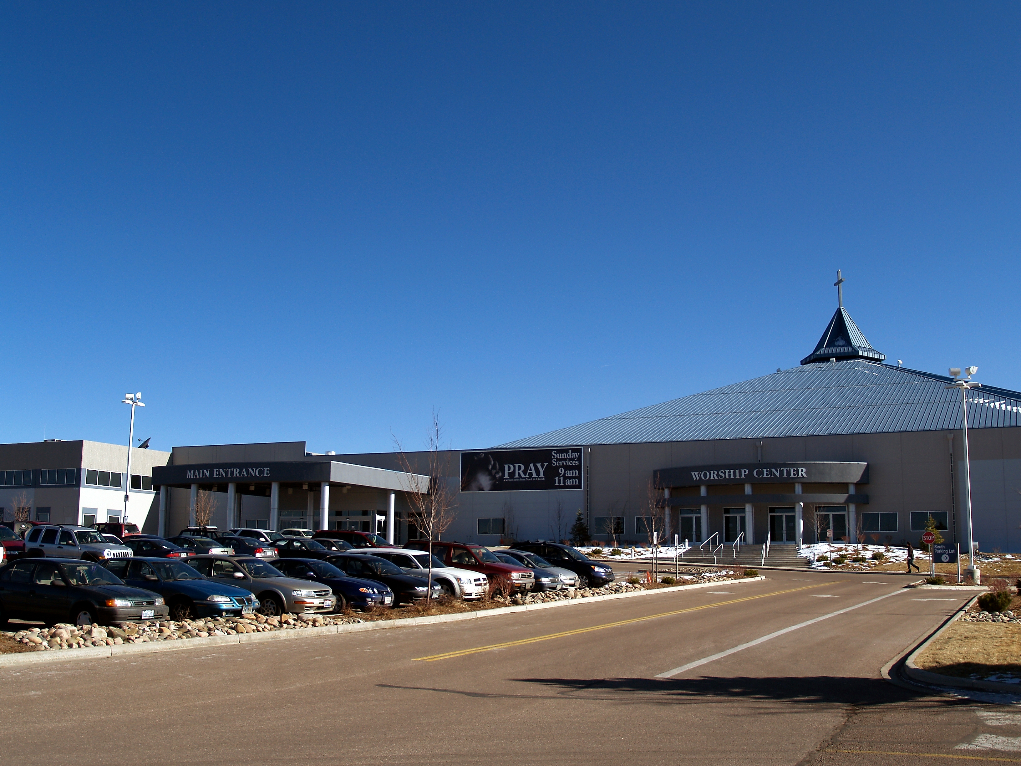 Ted Haggard-founded New Life Church in Colorado Springs, Colorado. Read about the photographer's experience taking this photo.